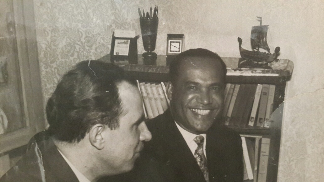 Maître Francois DUVAL